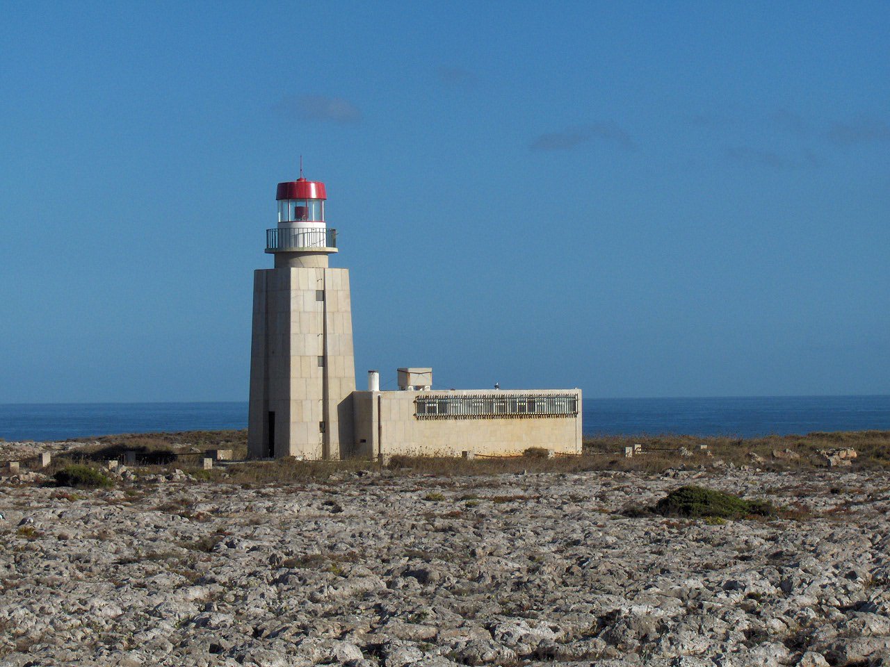 Lighthouse on Cape Sagres, southernmost point of Portugal; Sagres, Portugal.